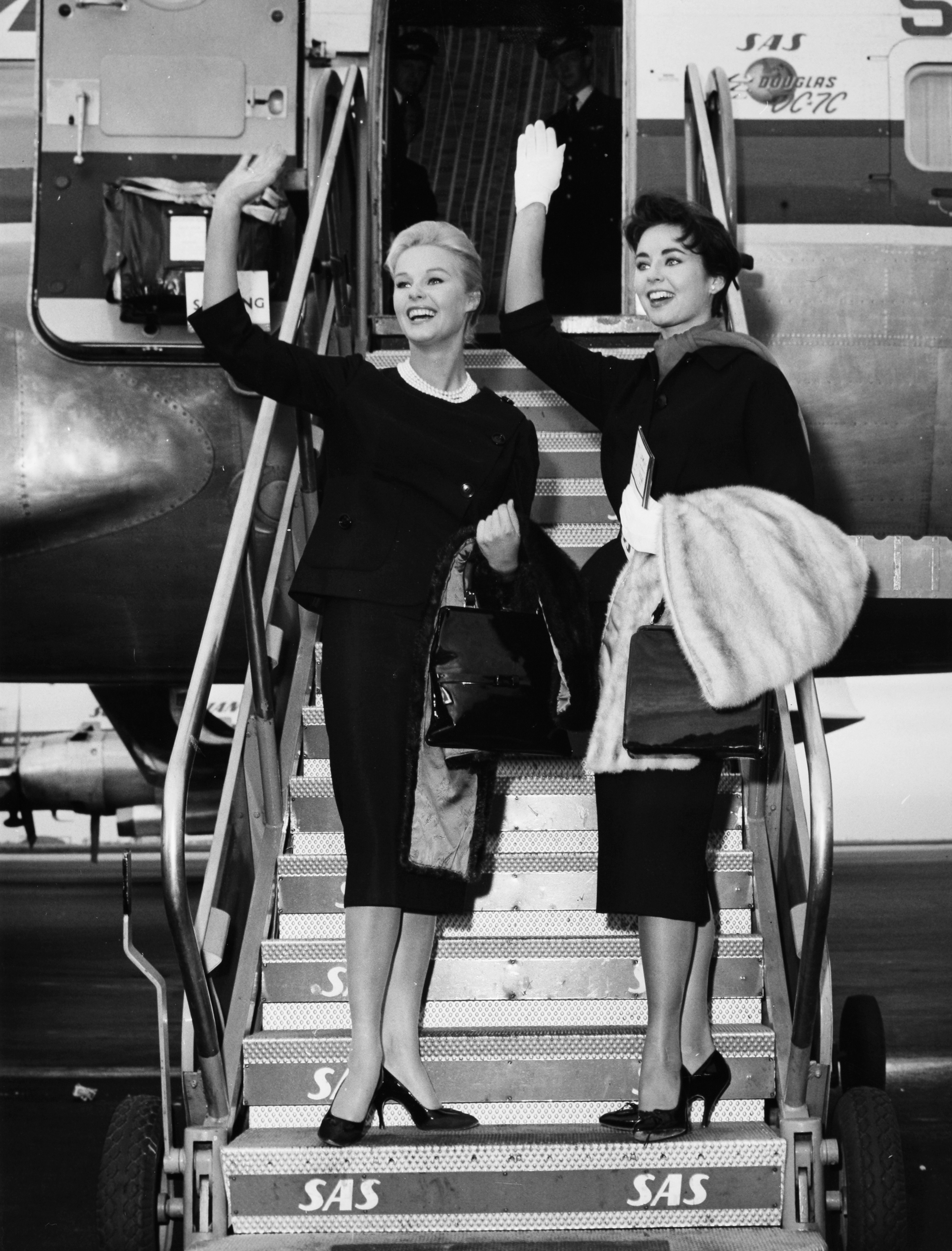 Miss Sweden Ingrid Goude and Miss Universe Carol Morris at Kastrup Airport CPH, Copenhagen 1958-05-14